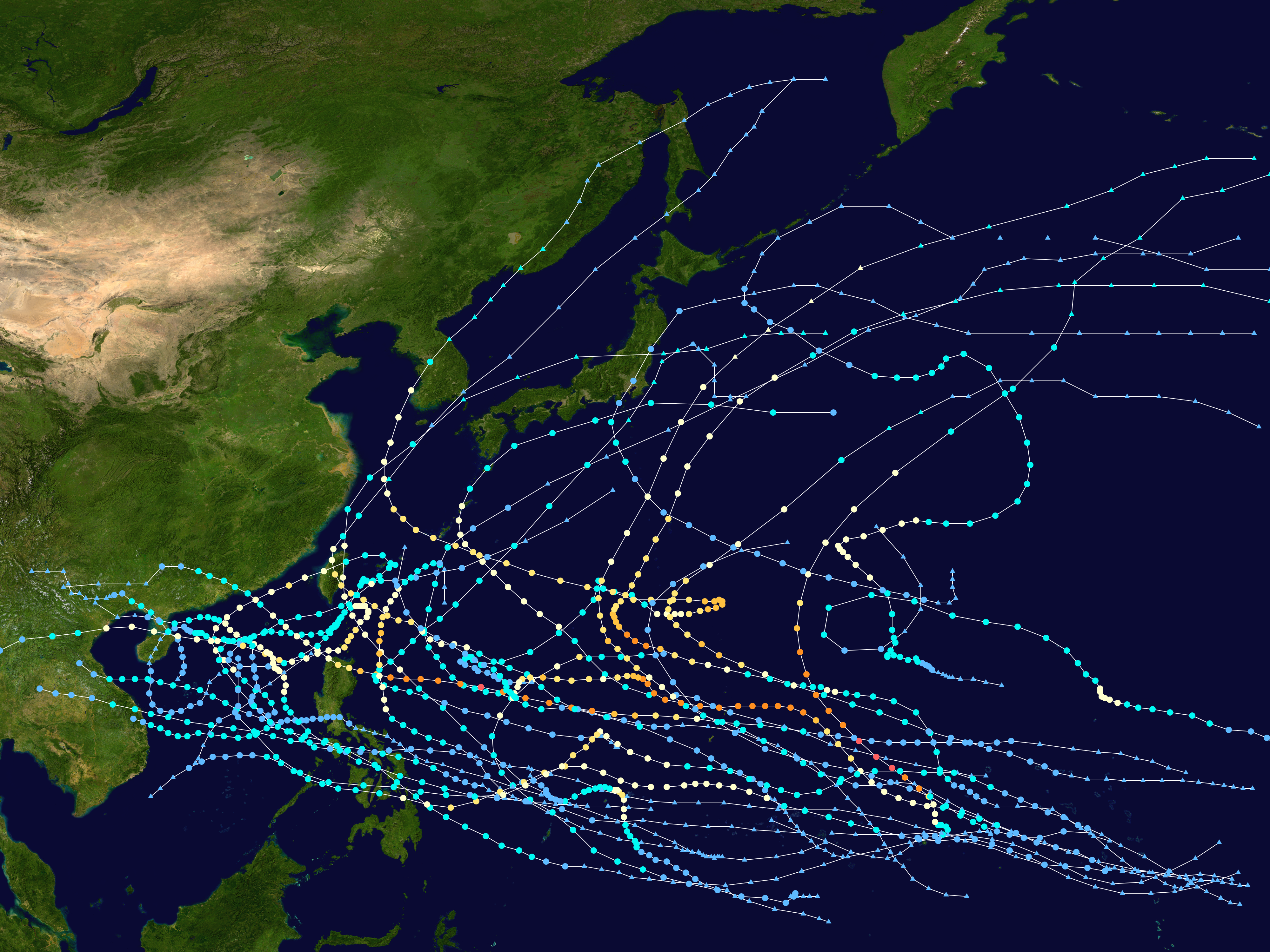 This map shows the tracks of all tropical cyclones in the 1986 Pacific typhoon season. The points show the location of each storm at 6-hour intervals. The colour represents the storm's maximum sustained wind speeds as classified in the Saffir-Simpson Hurricane Scale (see below), and the shape of the data points represent the type of the storm. Saffir–Simpson scale Tropical depression≤38 mph≤62 km/h Category 3111–129 mph178–208 km/h Tropical storm39–73 mph63–118 km/h Category 4130–156 mph209–251 km/h Category 174–95 mph119–153 km/h Category 5≥157 mph≥252 km/h Category 296–110 mph154–177 km/h Unknown Storm type Tropical cyclone Subtropical cyclone Extratropical cyclone / Remnant low / Tropical disturbance / Monsoon depression